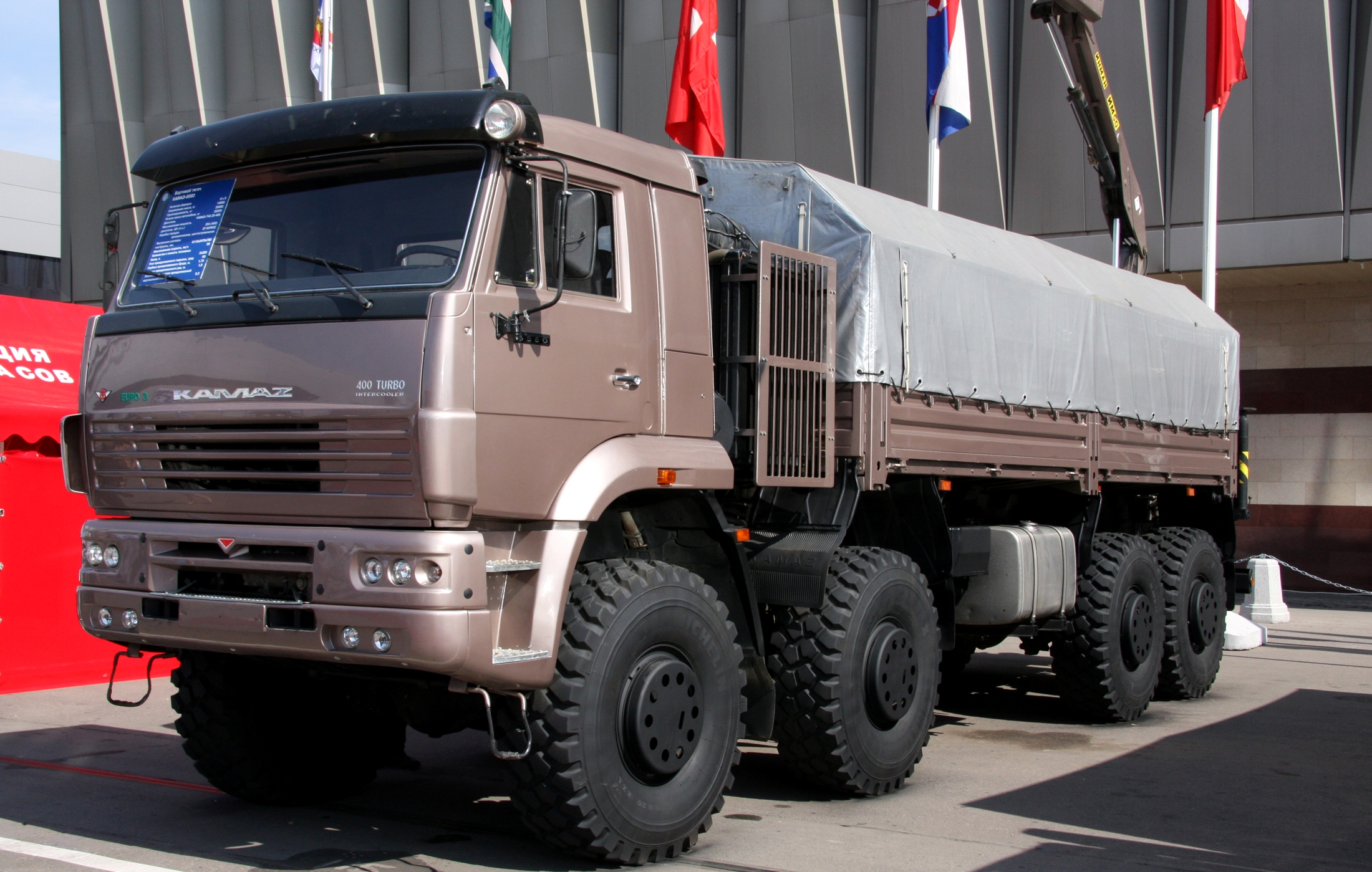 Kamaz-6560 truck at IDELF-2008.